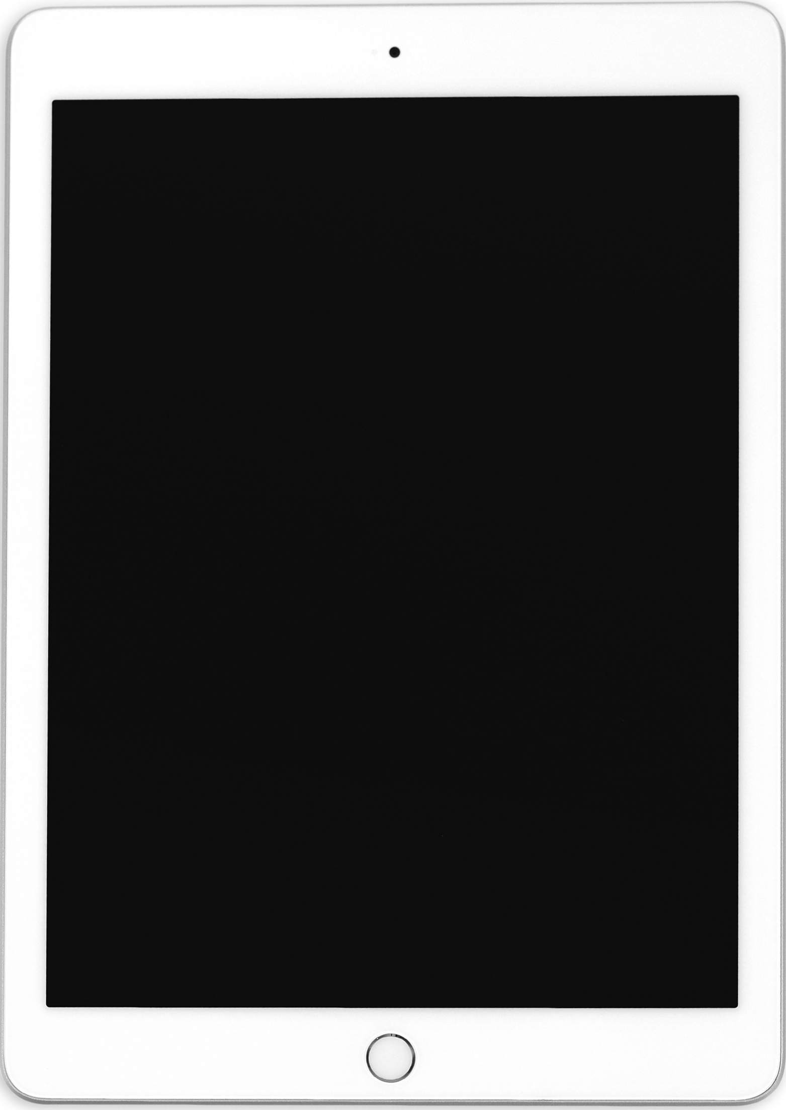 The iPad (2017) with a silver backside.